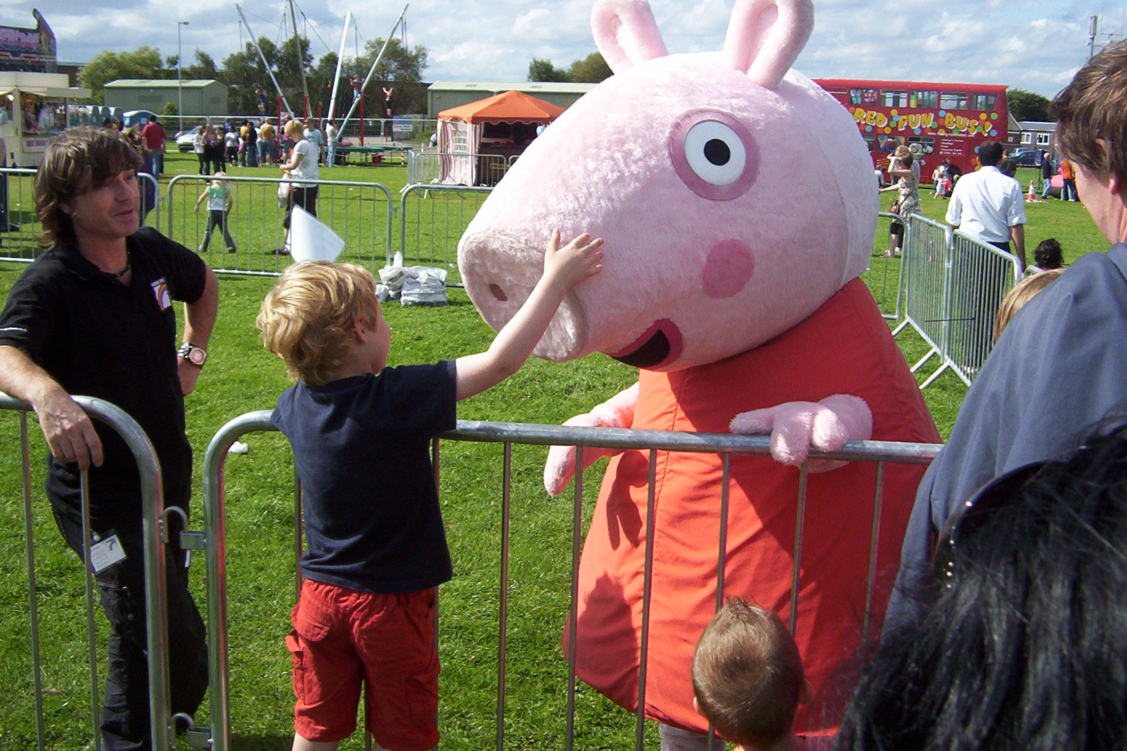 Peppa Pig making a personal appearance in the UK, 2009. Photo taken by myself.